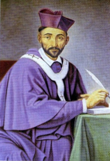 Aodh McAingil MacCathmhaoil (1571-1626) Franciscan scholar, poet and controversialist Aodh Mac Cathmhaoil (his name is usually anglicised as Hugh McCaghwell). He was born in "the City of Downe" in 1571, at a time when the fortified town now known as Downpatrick was a stronghold of the O'Neill's.